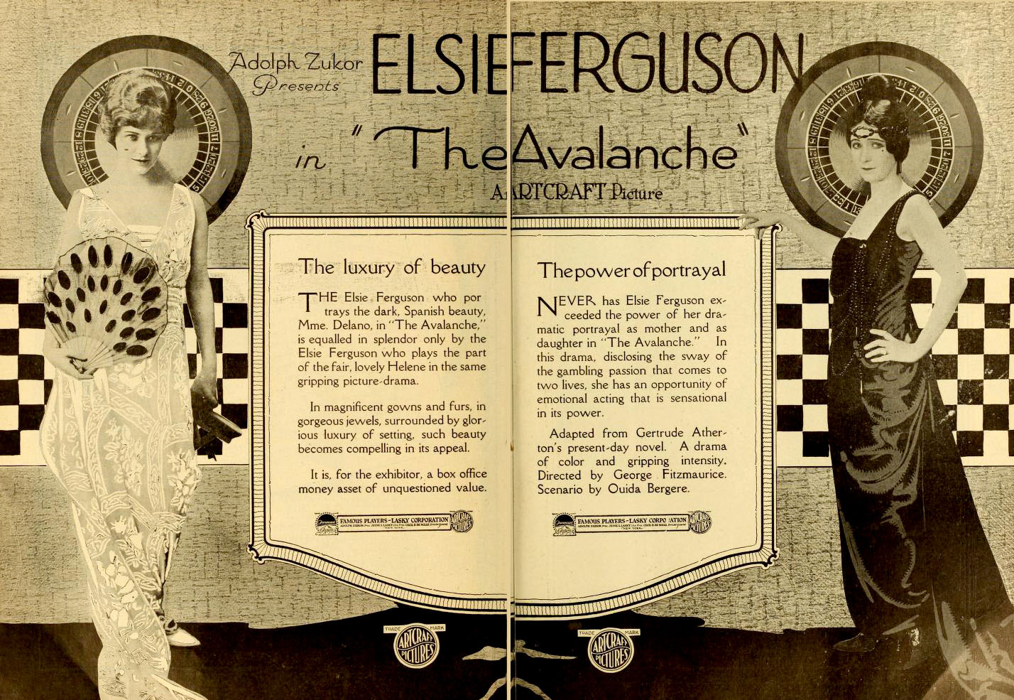 Advertisement in Moving Picture World, June 1919 for the American film The Avalanche (1919) with Elsie Ferguson.